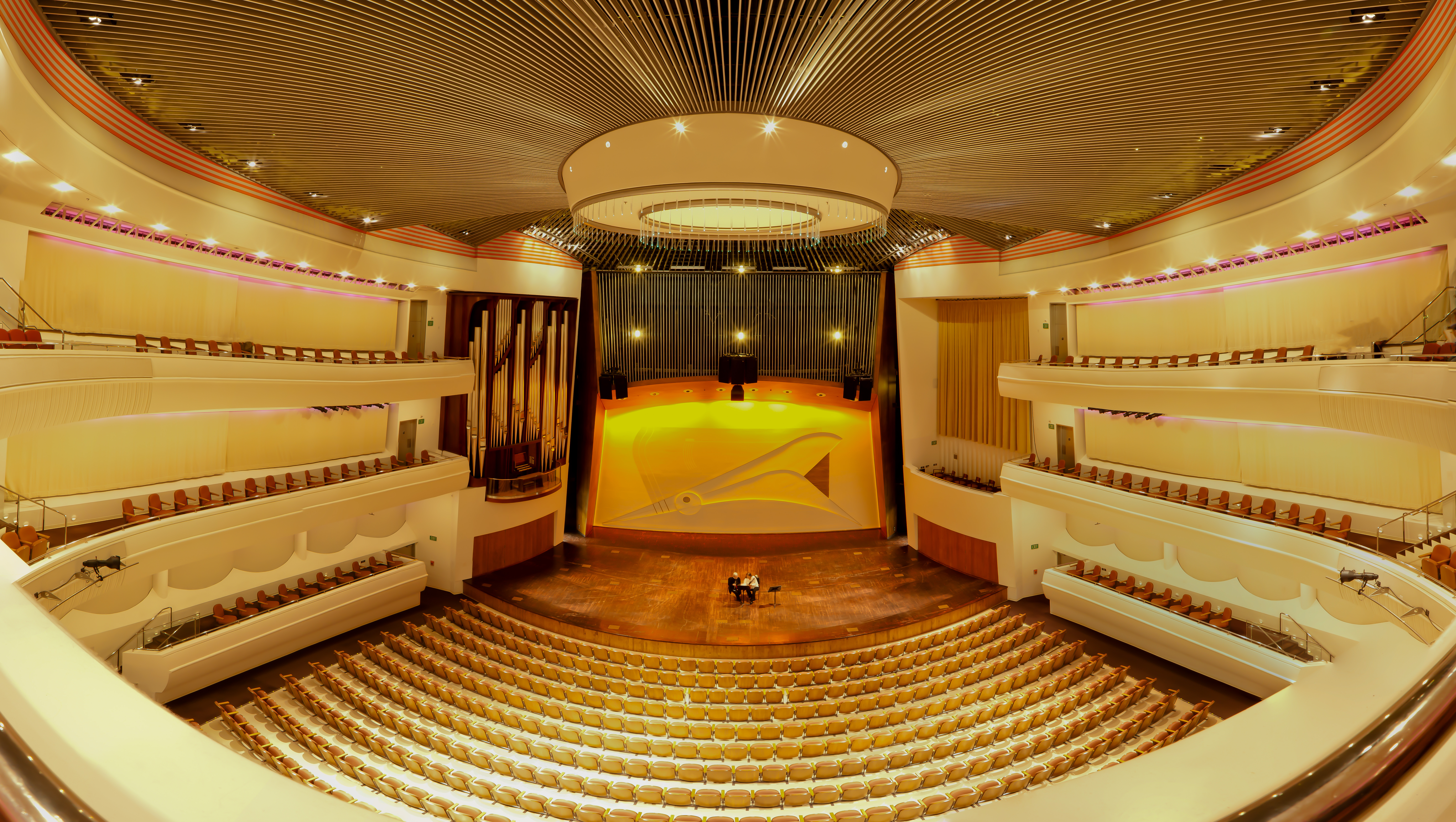 The Performing Arts Center at Cal Poly is San Luis Obispo is the architectural centerpiece of the San Luis Obispo art establishment. Designed by Albert Bertoli the elegant main theater seats 1,289. The pipe organ has 2,767 pipes. This is a pano shot from the gallery taken on a SLOCC field trip February 20th, 2011.